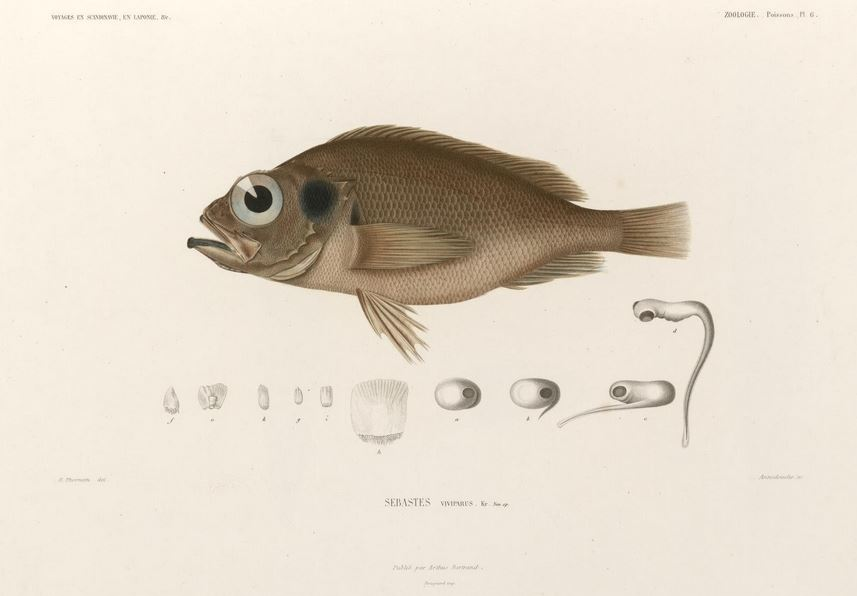 Sebastes viviparus